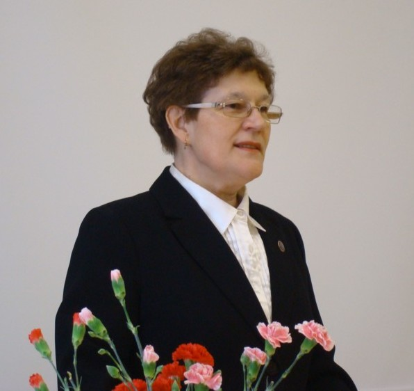 Ljubov Kisseljova, professor at University of TartuEesti: Ljubov Kisseljova (sündinud 17. mail 1950) on Eesti kirjandusteadlane